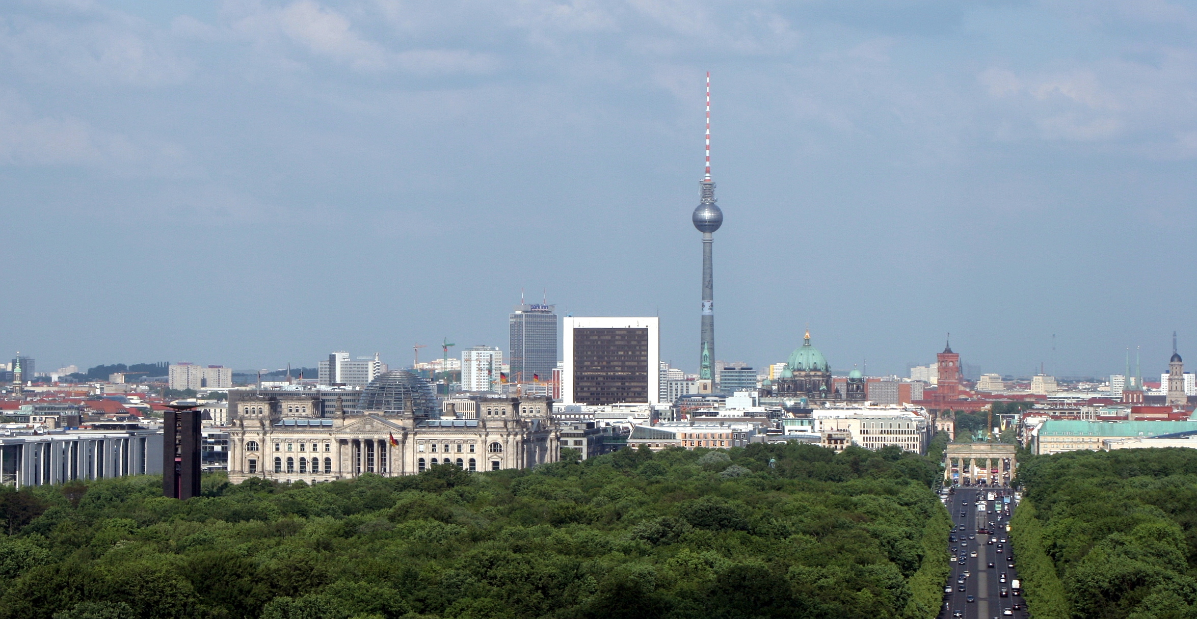 Berlin Cityscape, shot from Siegessäule.